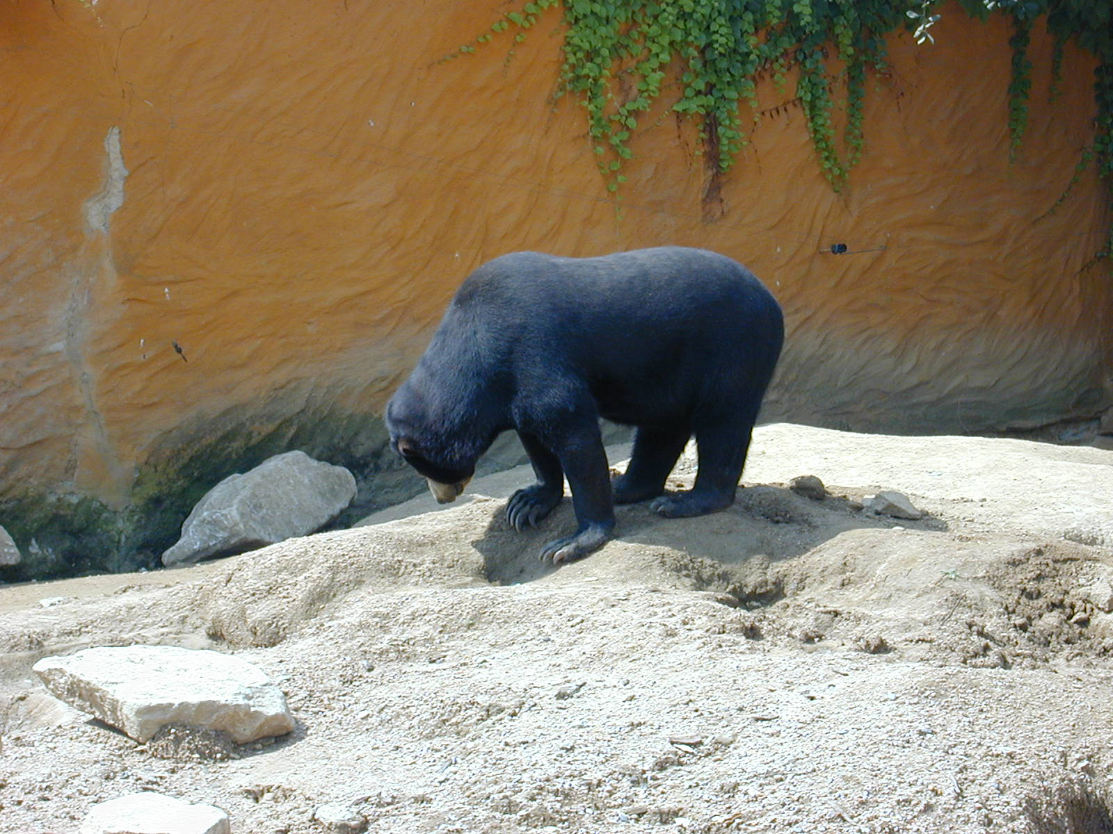 Sun Bear (Helarctos malayanus) at the Touroparc zoological garden in Romanèche-Thorins (France).